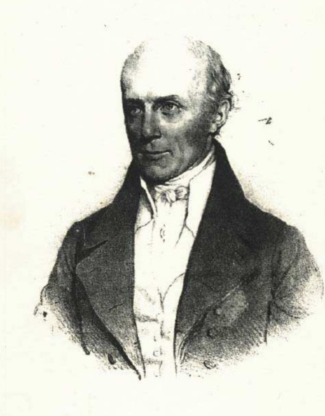 Antun Martecchini (d. 1835), printer and publisher from Dubrovnik